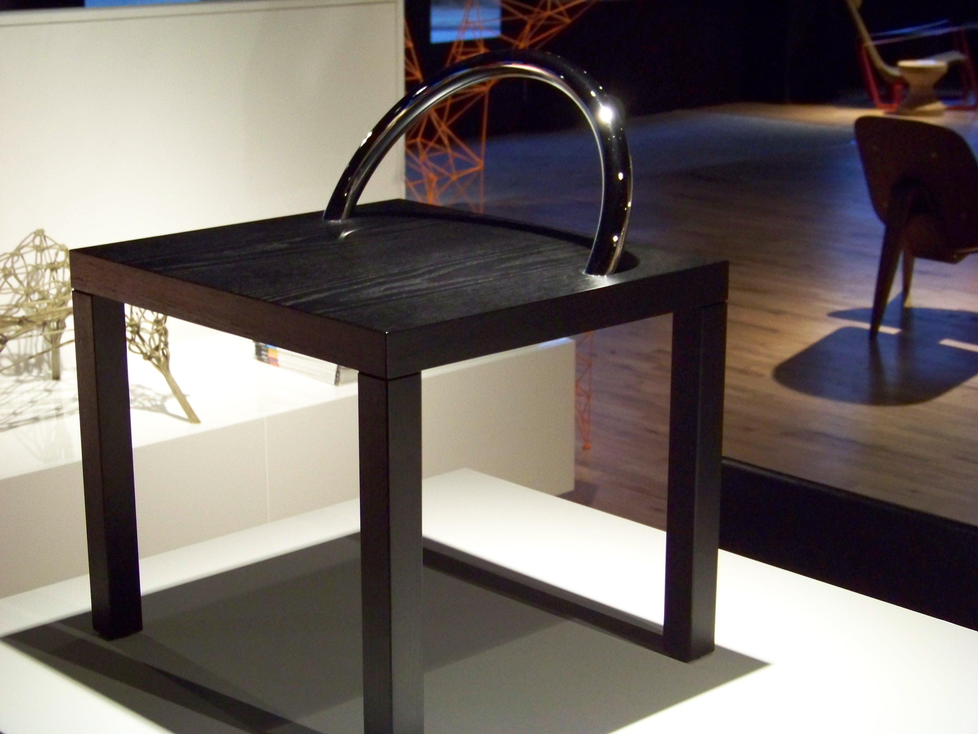 Stool Ko-Ko from Shiro Kuramata